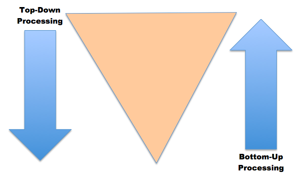 Diagram of Top-Down and Bottom-Up Processing